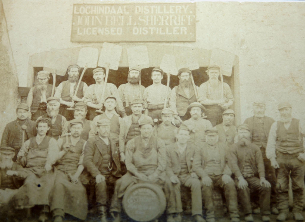 Workers of the Lochindaal Distillery.